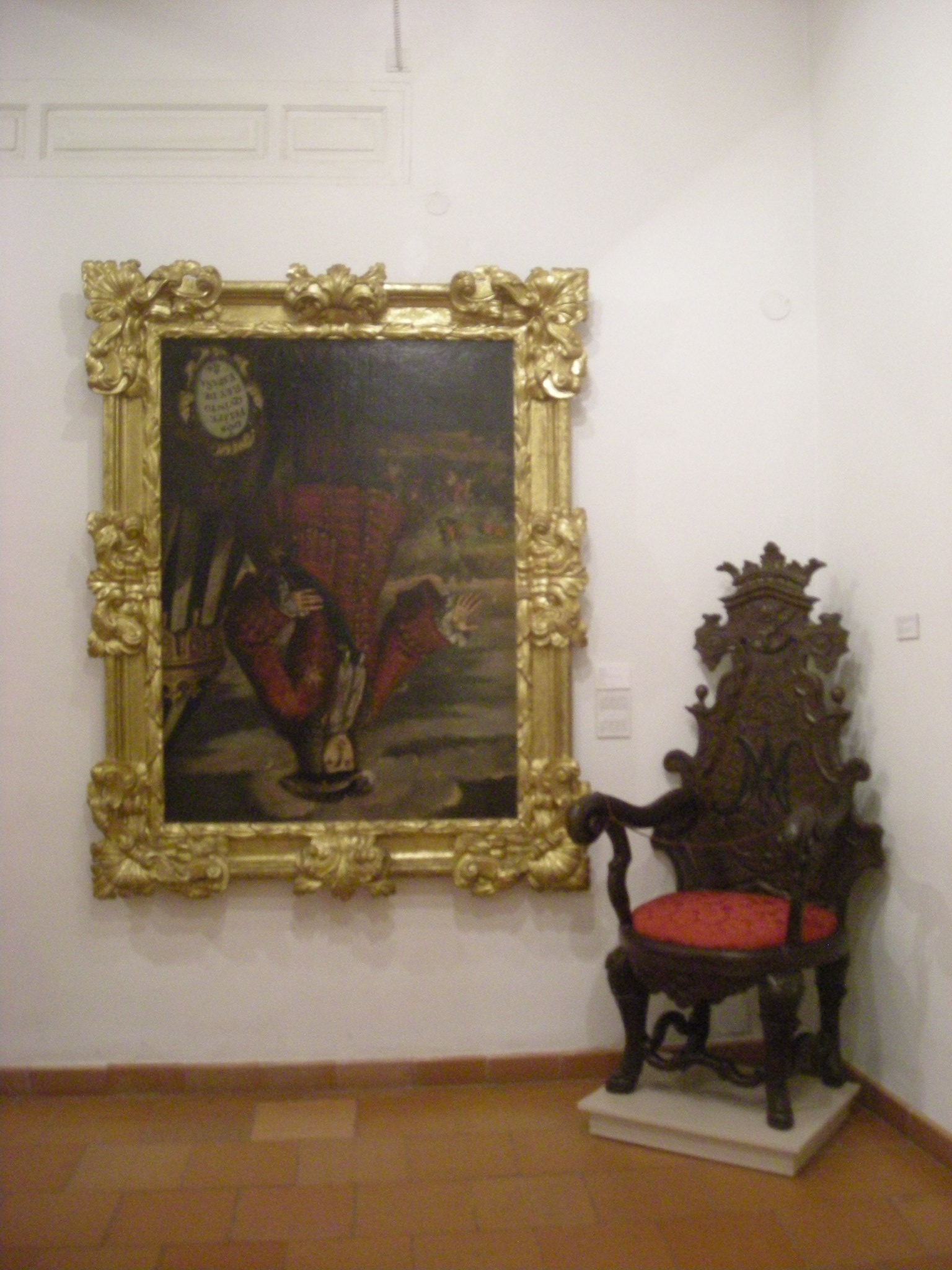 Portrait of Philip V upside down next to a chair, located in the Almudín of Xativa.